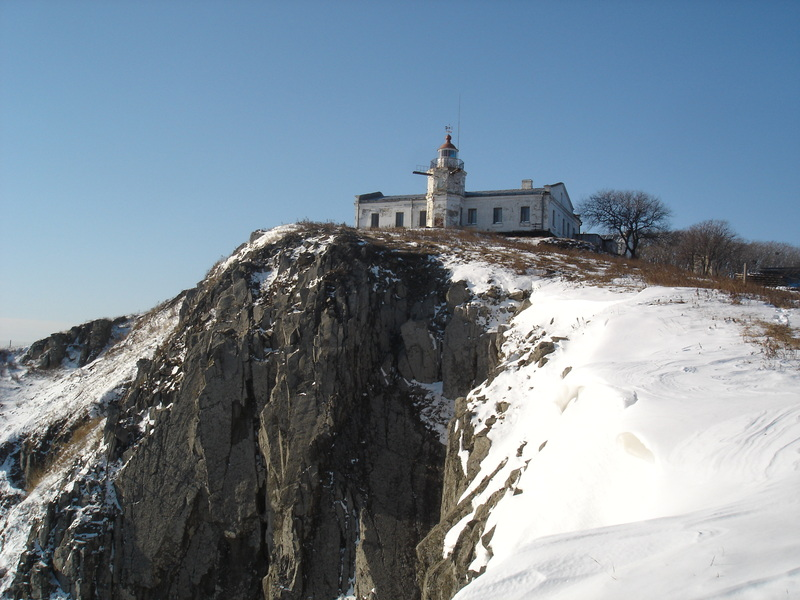 Byusse (Busse) lighthouse near Slavyanka, Primorye region, Russia